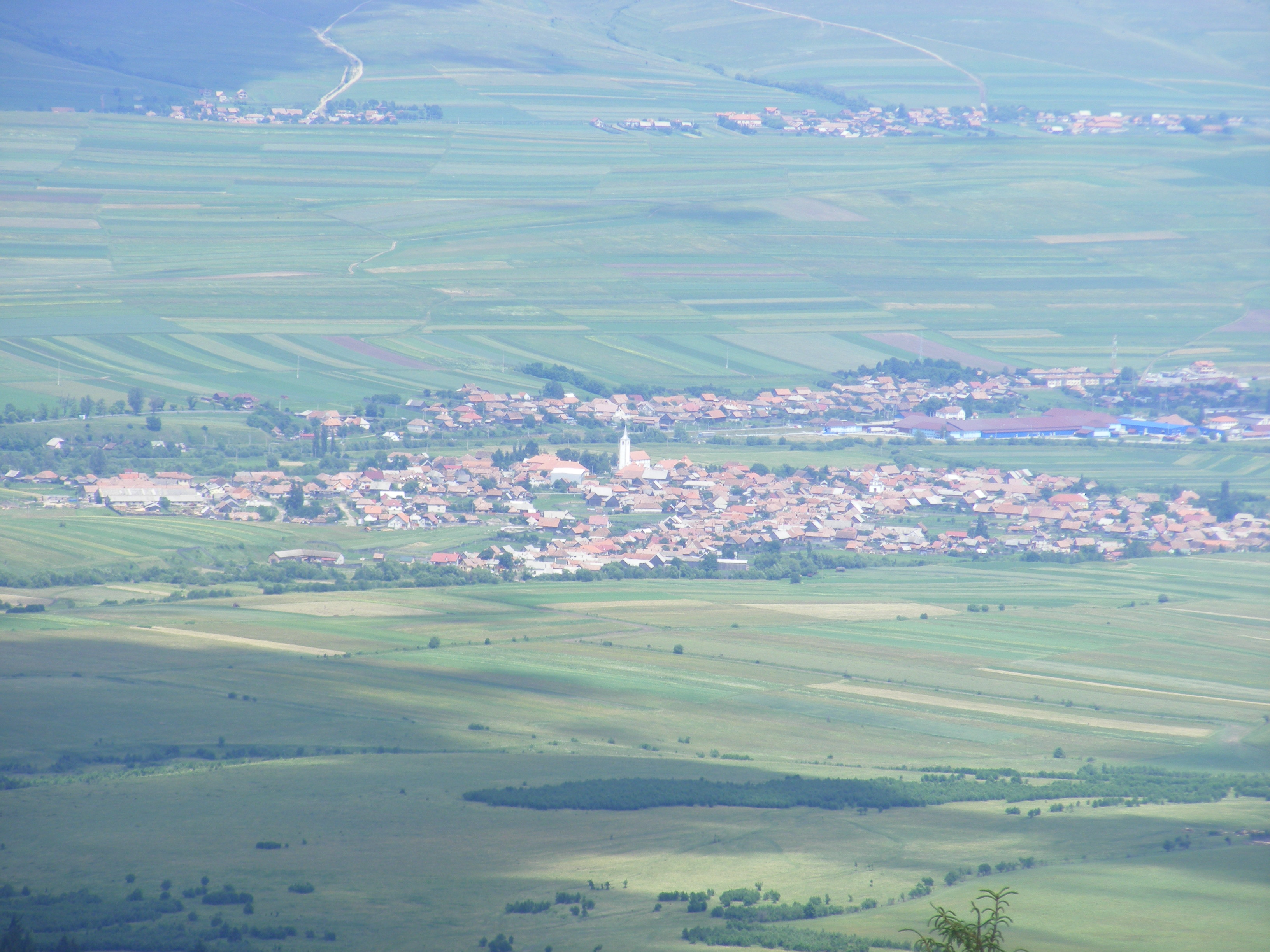 Sâncraieni, Transylvania, Romania